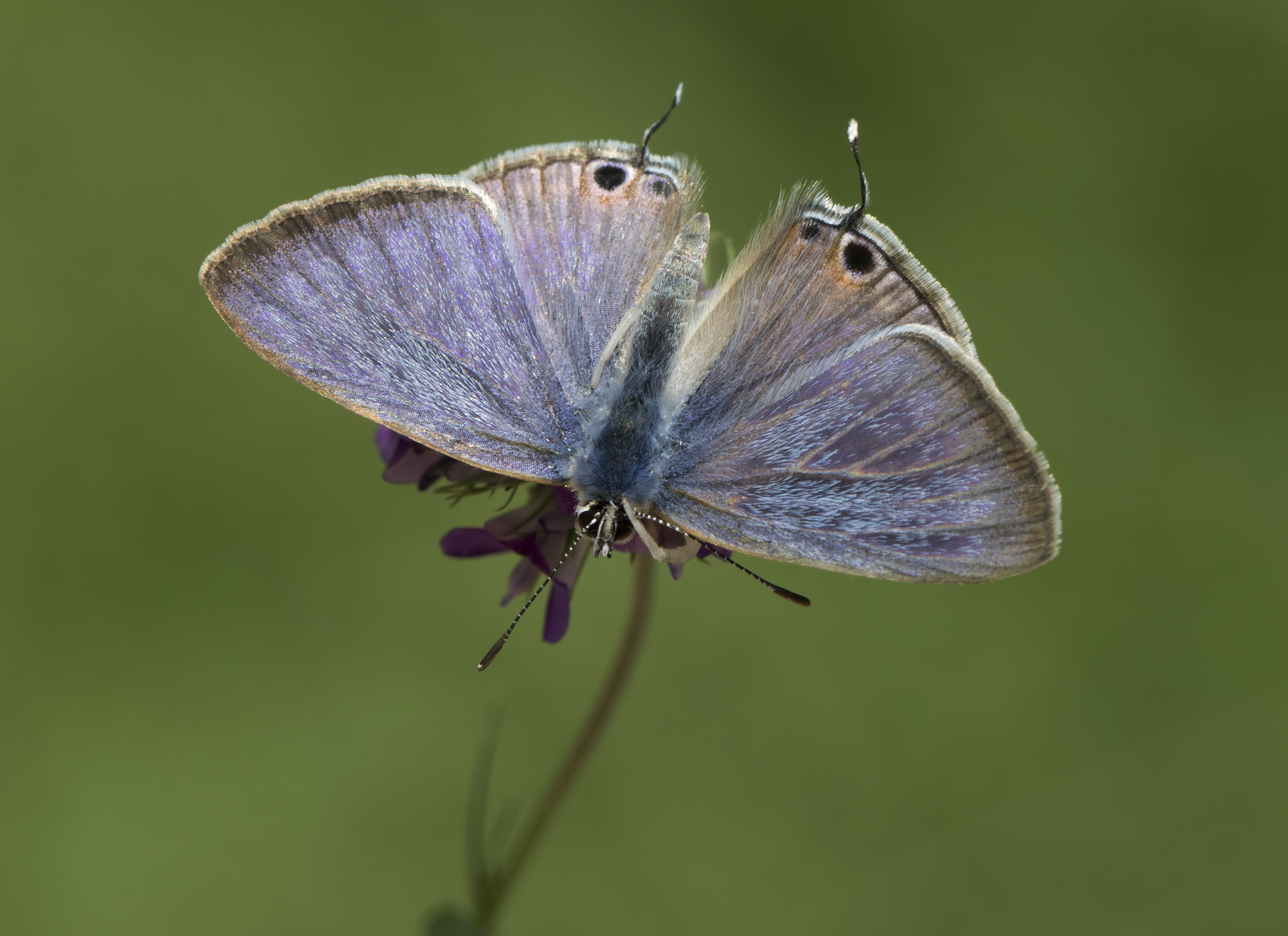 Wing upperside of a male pea blue (Lampides boeticus) . Balcalı, Adana - Turkey.